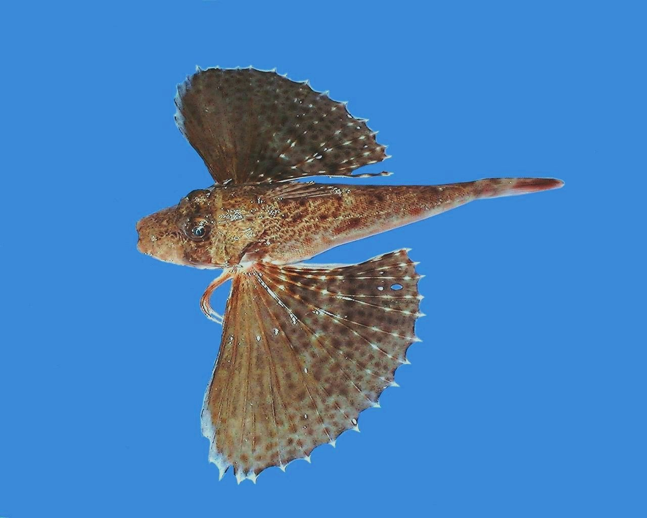 Leopard searobin ( Prionotus scitulus )